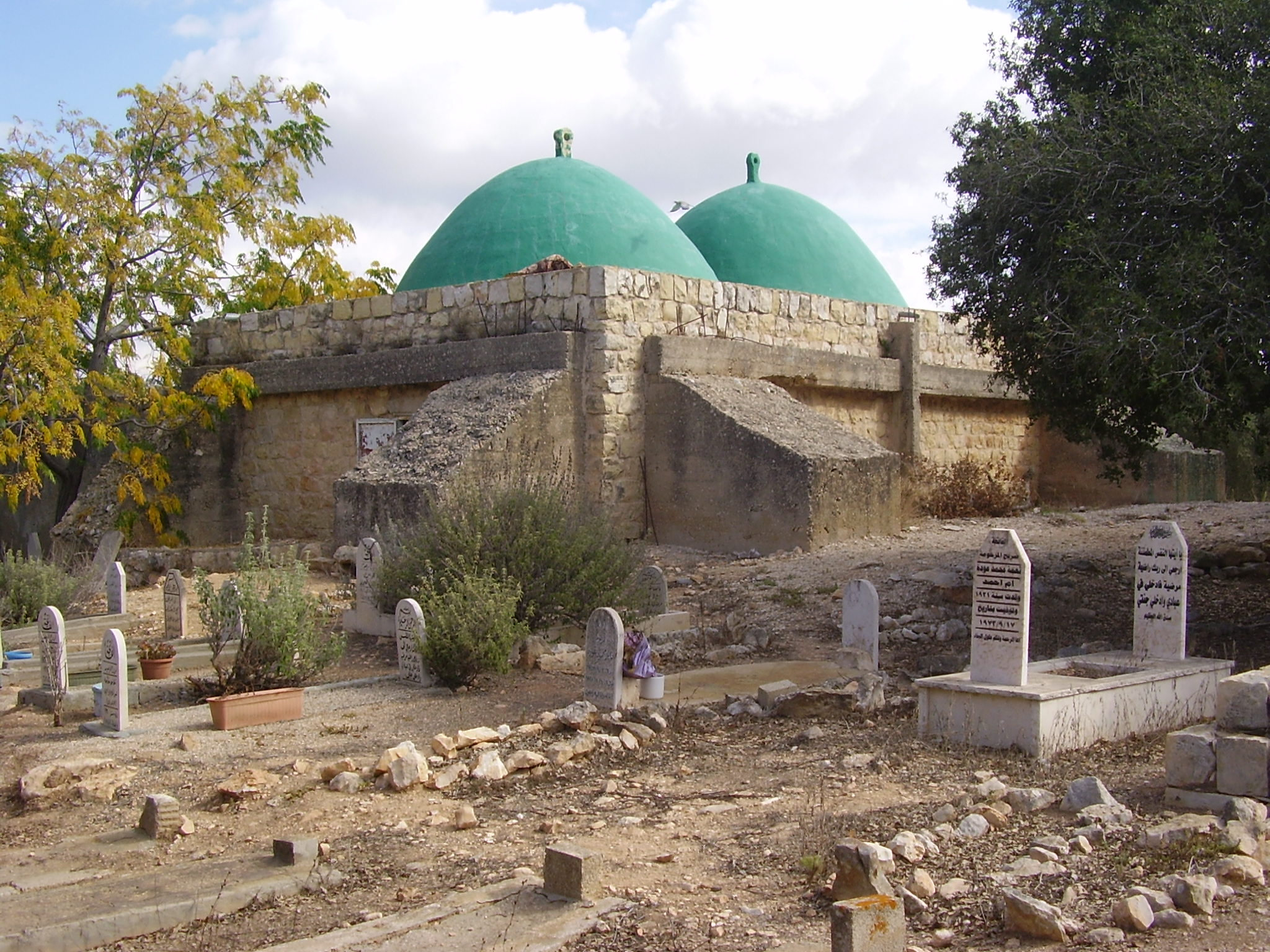 Tomb of sheikh Abu al-Hija, commander of Kurdi forces in Sultan Saladin's army. Kaukab Abu al-Hija, Israel.